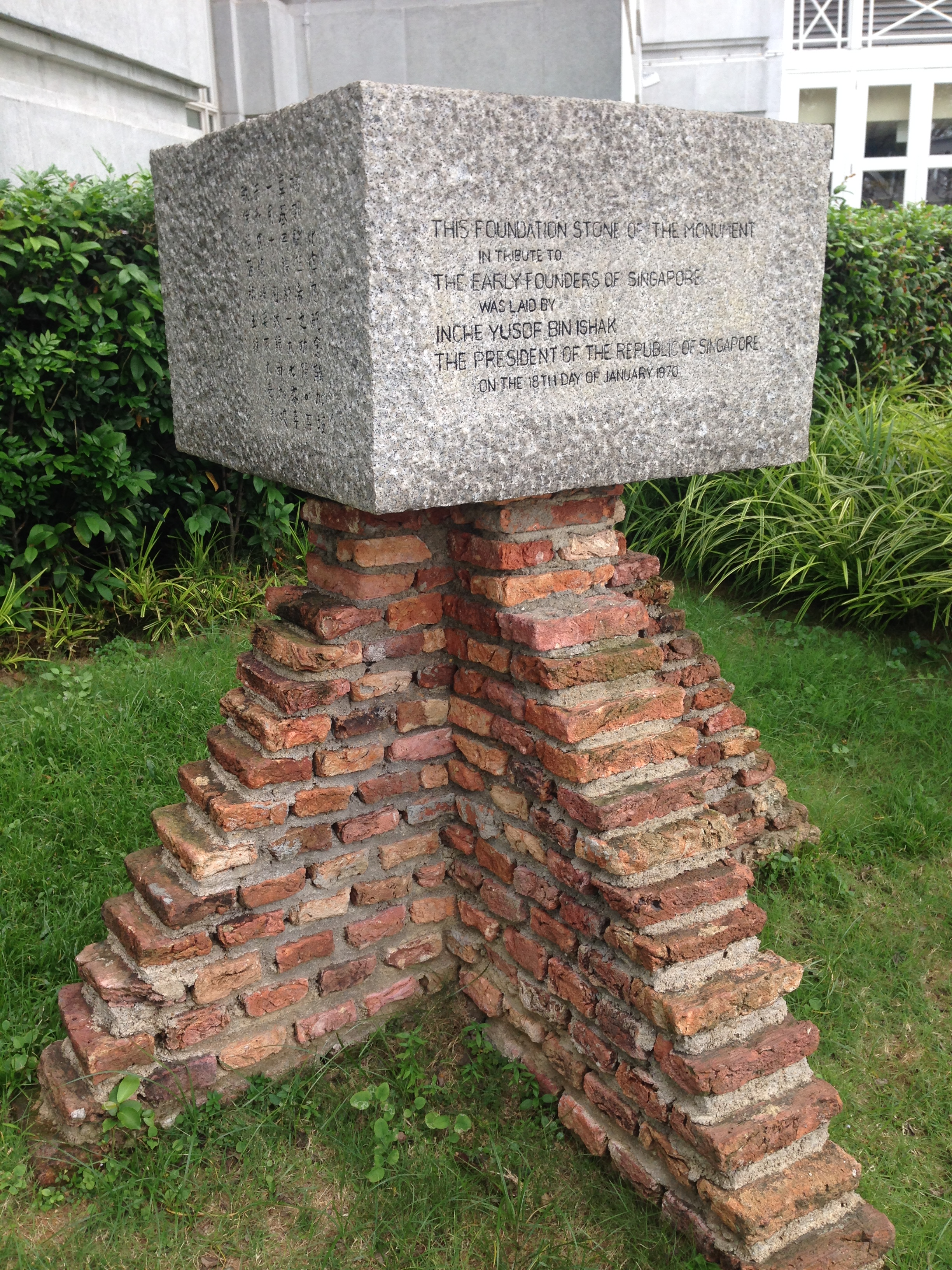 The foundation stone of the Monument of the Early Founders of Singapore in the grounds of The Fullerton Hotel Singapore. The idea for a monument was proposed in 1969 by Alumni International Singapore, and the foundation stone was laid on the waterfront across the road from Fullerton Building by the first President of Singapore, Yusof Ishak, on 18 January 1970. However, the monument was never built. The stone was moved to the grounds of the National Archives of Singapore in 2000, and then to its present location.